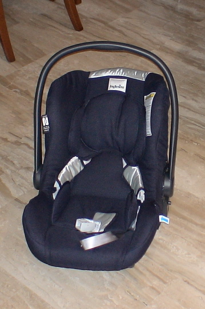 Inglesina 3-in-1 stroller without the chassis